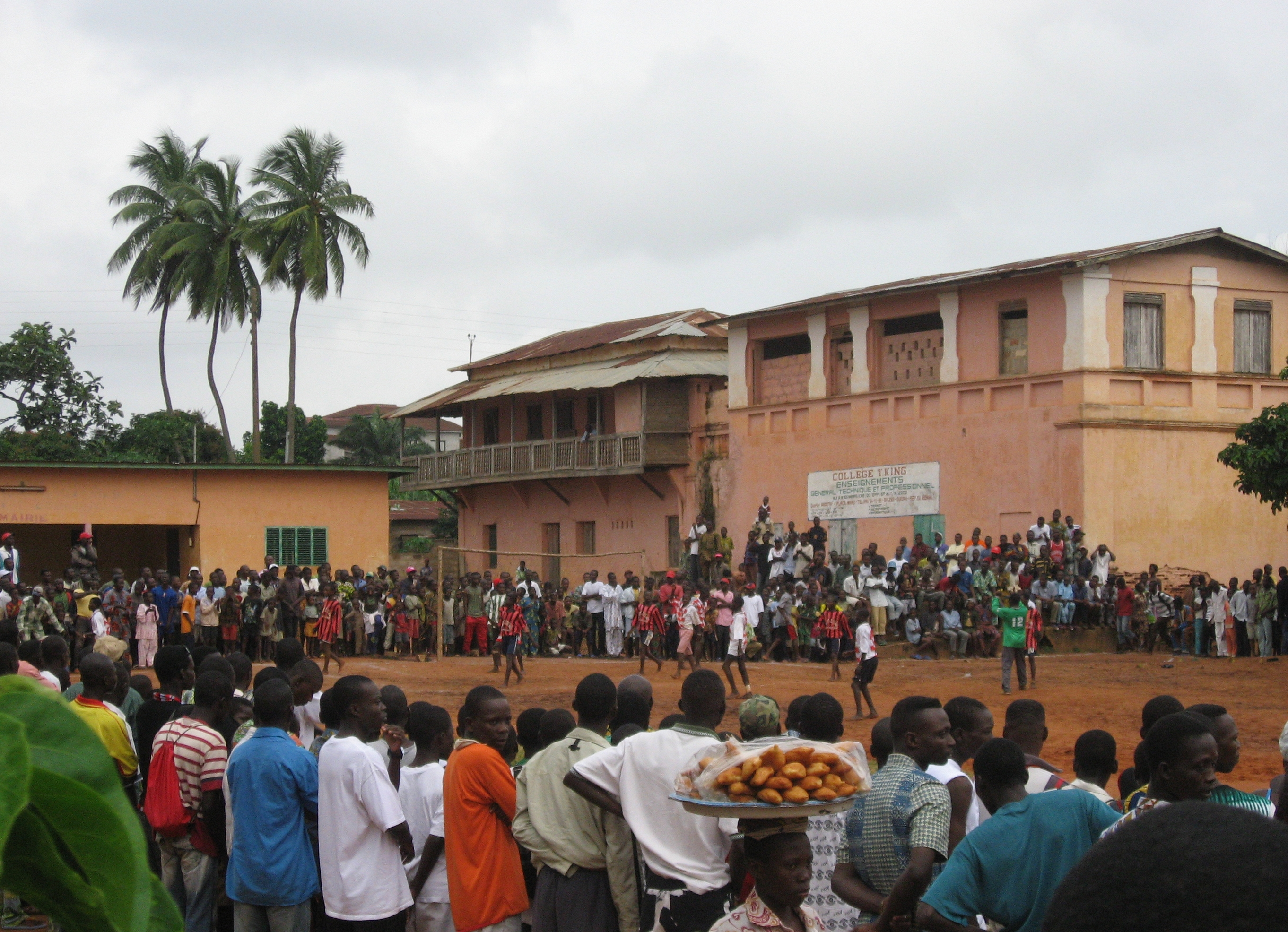 Football in Ouidah, Benin